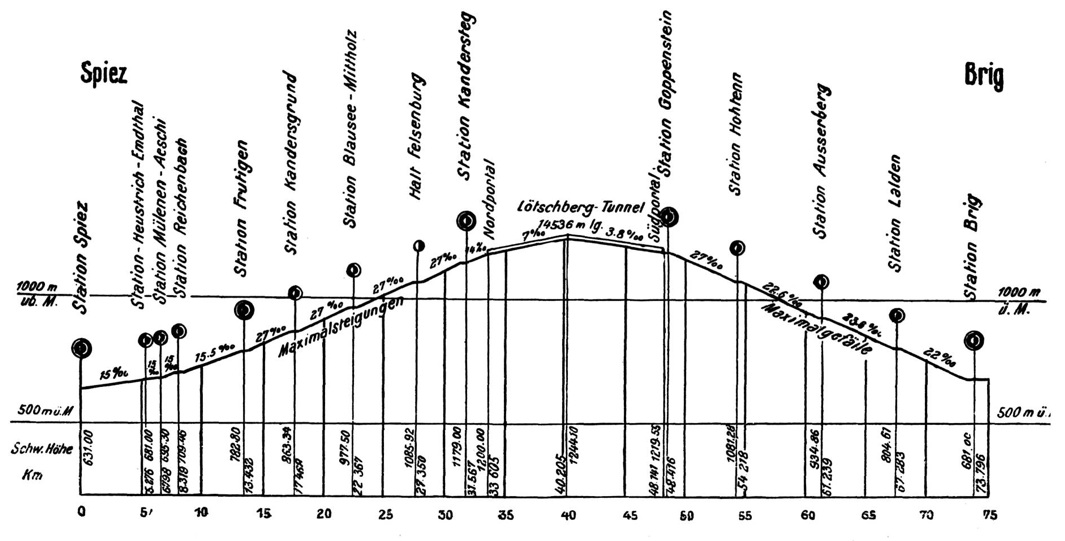 Longitudinal profile of the Lötschbergbahn between Spiez and Brig in Switzerland. The elevation of the route above sea level in [m] is shown above its projection on level ground in [km]. The slope of segments between stations is indicated in parts per thousand.